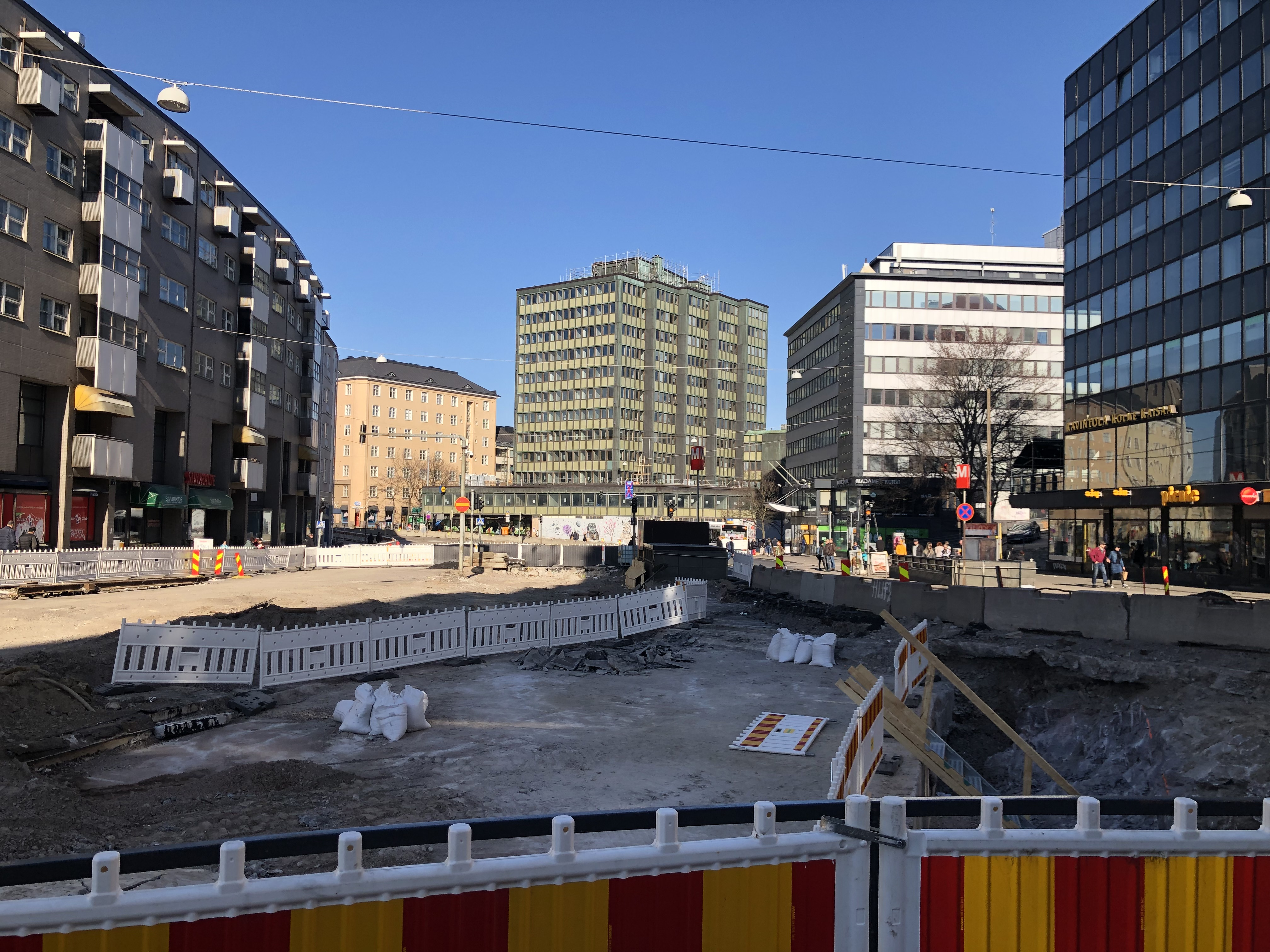 Sörnäinen kurvi under construction in April 2019 Helsinki Finland.